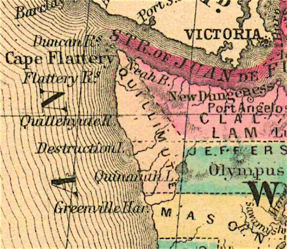 Portion of S. Augustus Mitchell's 1877 "Map of Oregon, Washington, Idaho and Montana," cropped to highlight Quillehuyte ("Quillimute") County.